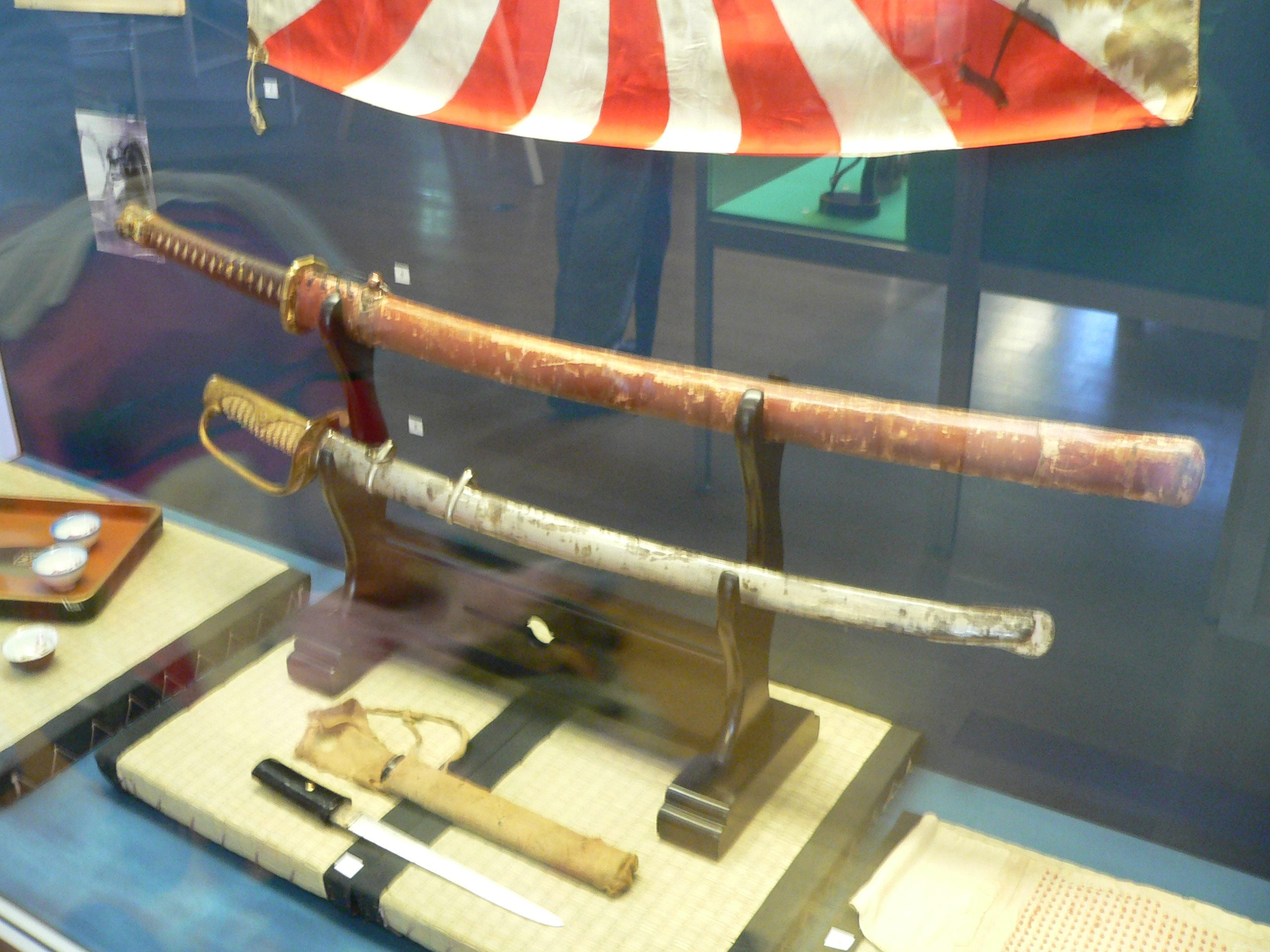 Japanese sabres and tanto of the second world war. Machine steel, industrial fabrication, with embossed and painted handle to look like a traditional tsuka. The shaft is of Western style (by opposition to a saya)